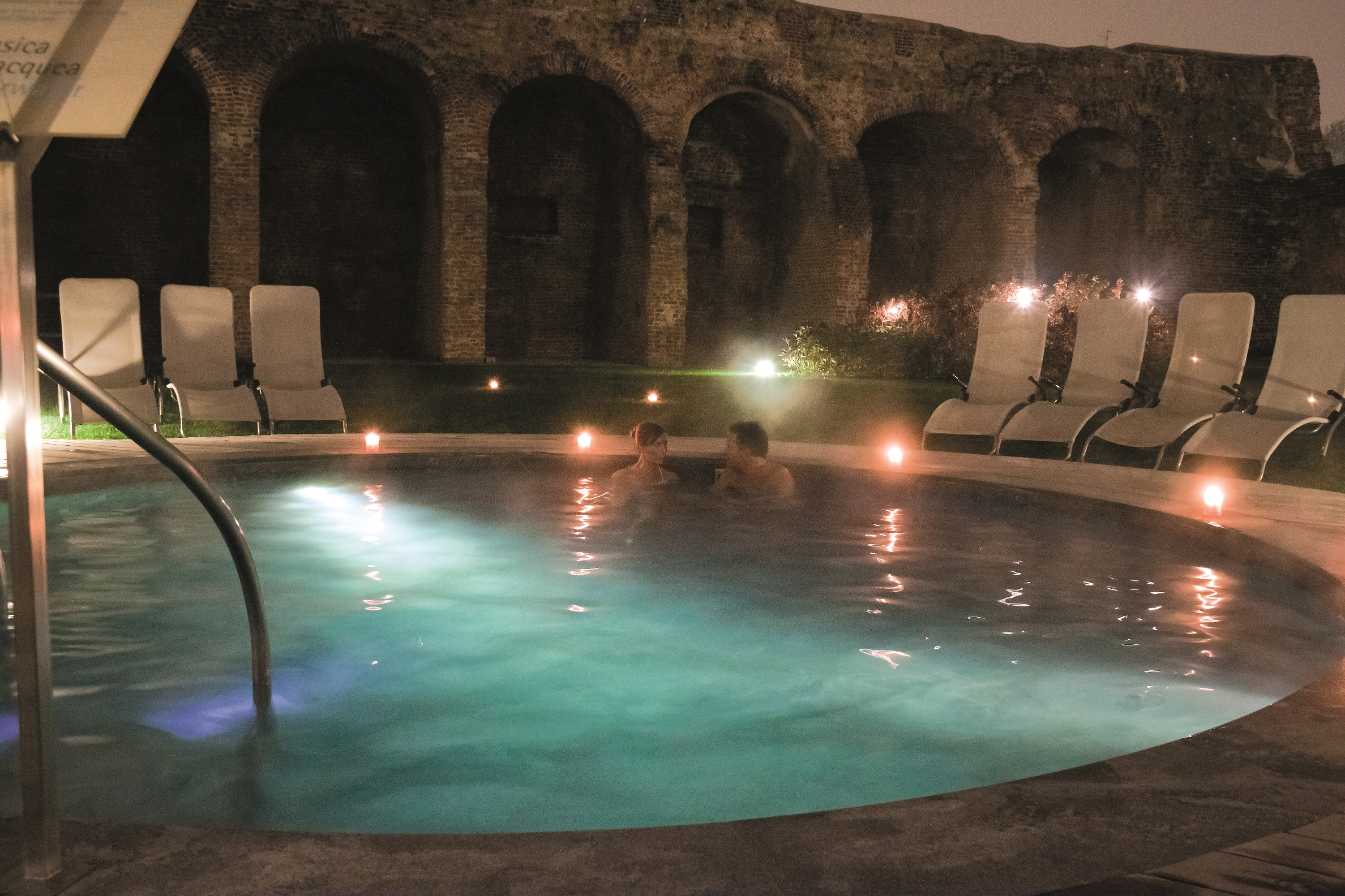 open air swimmingpool and Spanish city walls in the spa center Terme Milano